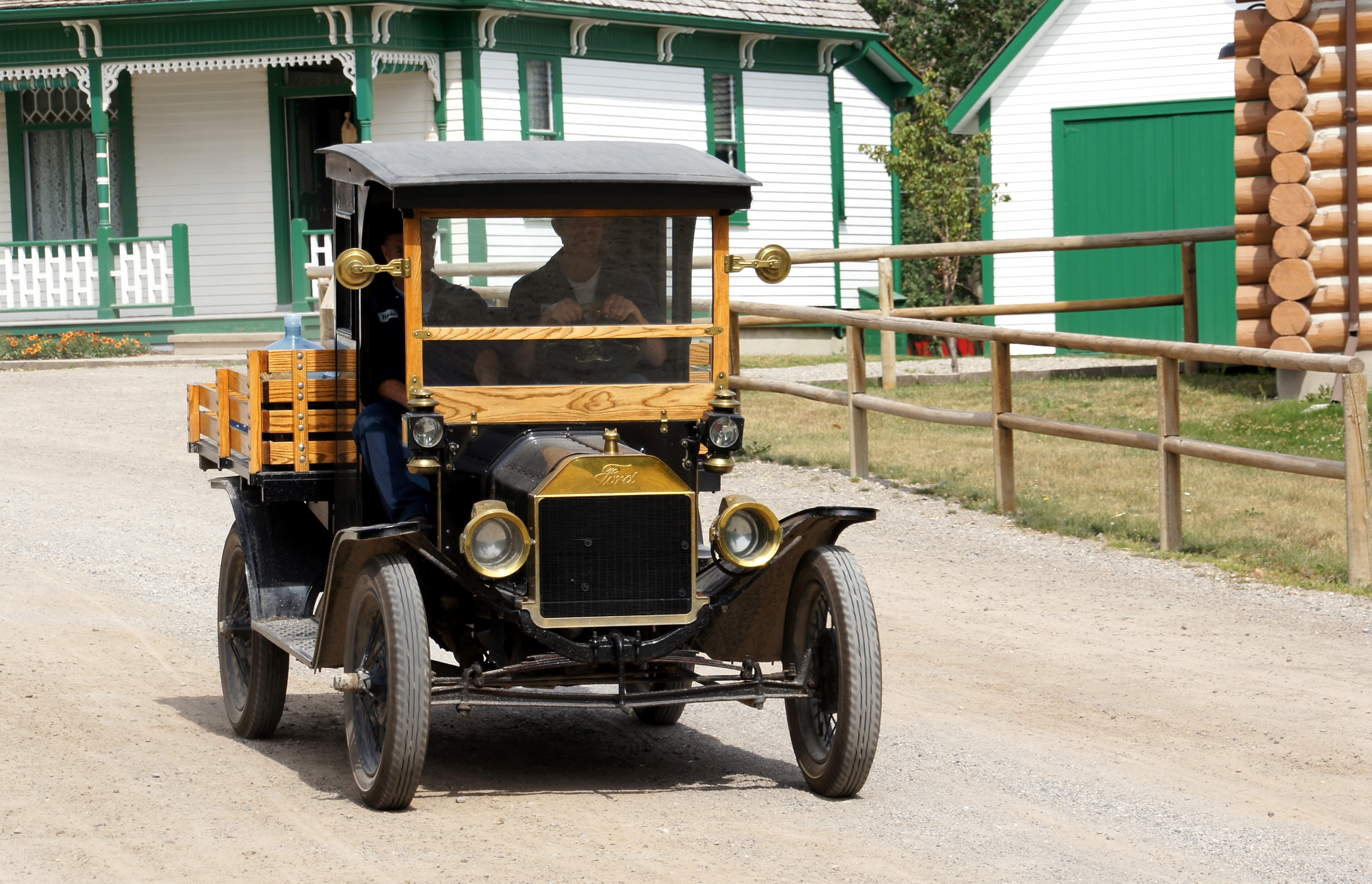 Ford continued to make trucks in 1914 and 1915 even as the company grew in other areas. In 1914, Ford initiated its $5 per day wage program, which was double the industry's normal rate of pay. This allowed Ford assembly-line workers to buy the cars they were building. It also helped to increase sales -- which were growing by leaps and bounds anyway -- prompting Ford to open another seven assembly plants.